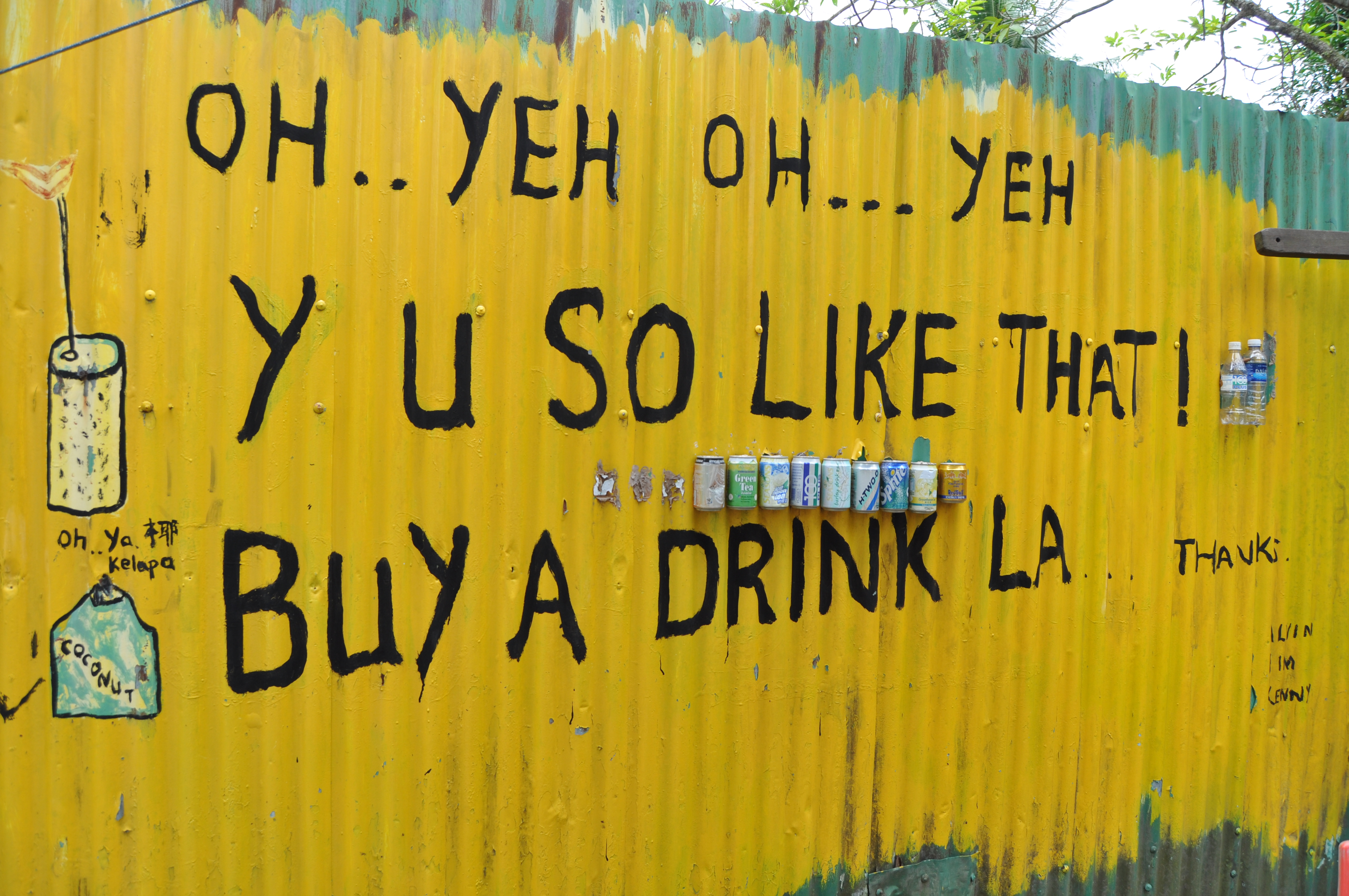 An advertisement in Singlish painted on a fence outside a café on Pulau Ubin, Singapore. Pulau Ubin, "Granite Island" in Malay, is a small island and one of the last rural areas to be found in the city state.